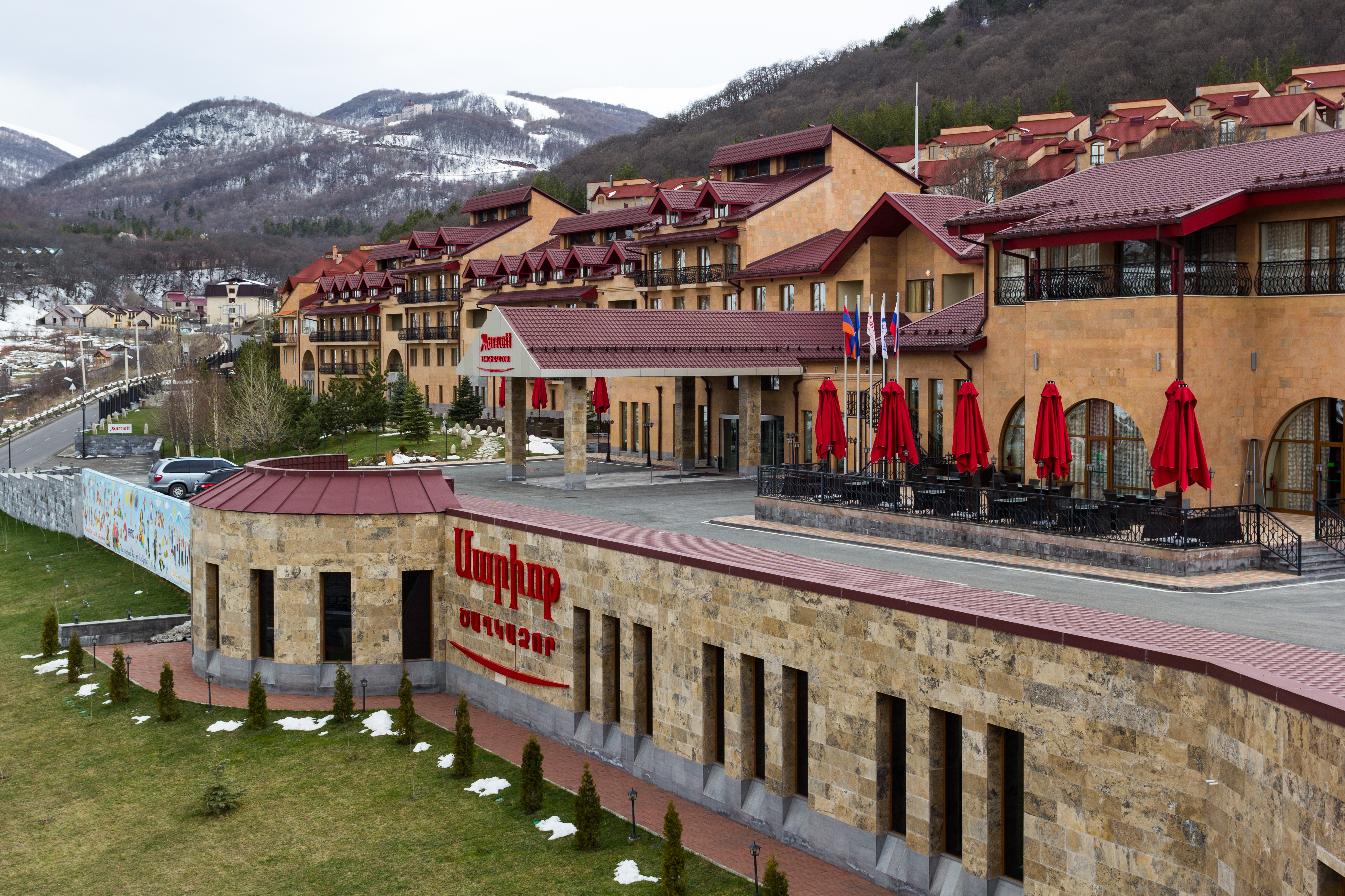 The Marriott Tsaghkadzor Hotel in Armenia's resort town of Tsaghkadzor.